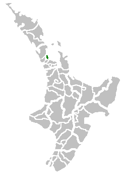 The location of North Shore City within the North Island of New Zealand.